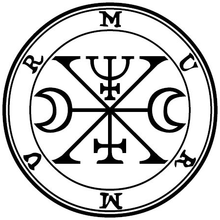 Murmur seal, THE BOOK OF THE GOETIA OF SOLOMON THE KING (1904)